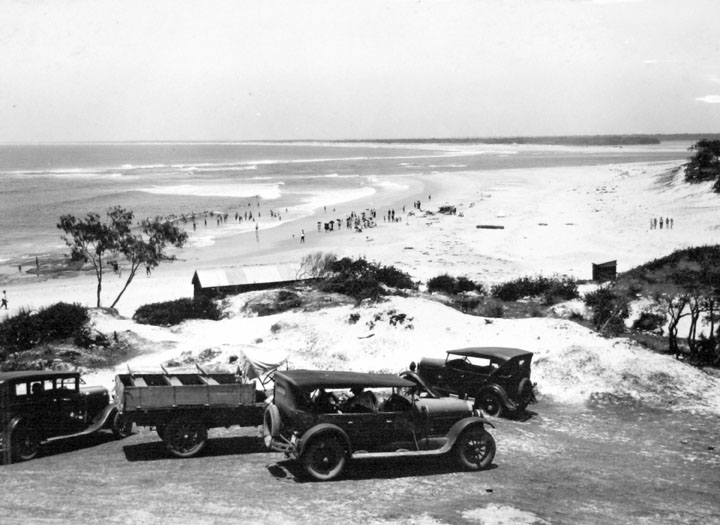 View of Beach, showing Bribie Island and entrance to Pumicestone Channel, Caloundra. (The original caption makes reference to N C [North Coast].)